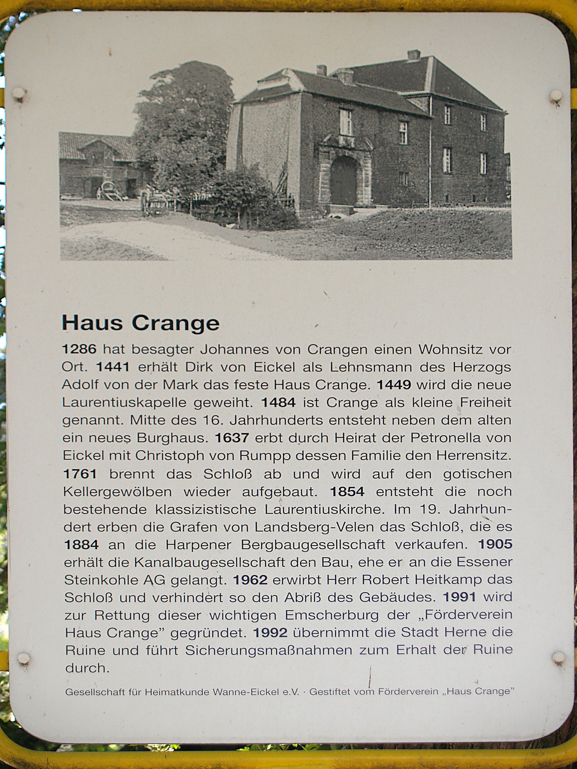 The ruin of Haus Crange in Herne, Germany, infoboard